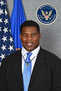 Herschel Walker, NFL Player and Entrepreneur